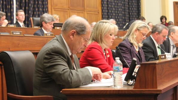 Congressman Bob Turner seated at the Foreign Affairs committee, an assignment he was appointed to. In this capacity, he voted on legislation and measures regarding Israel, Syria, and Iran